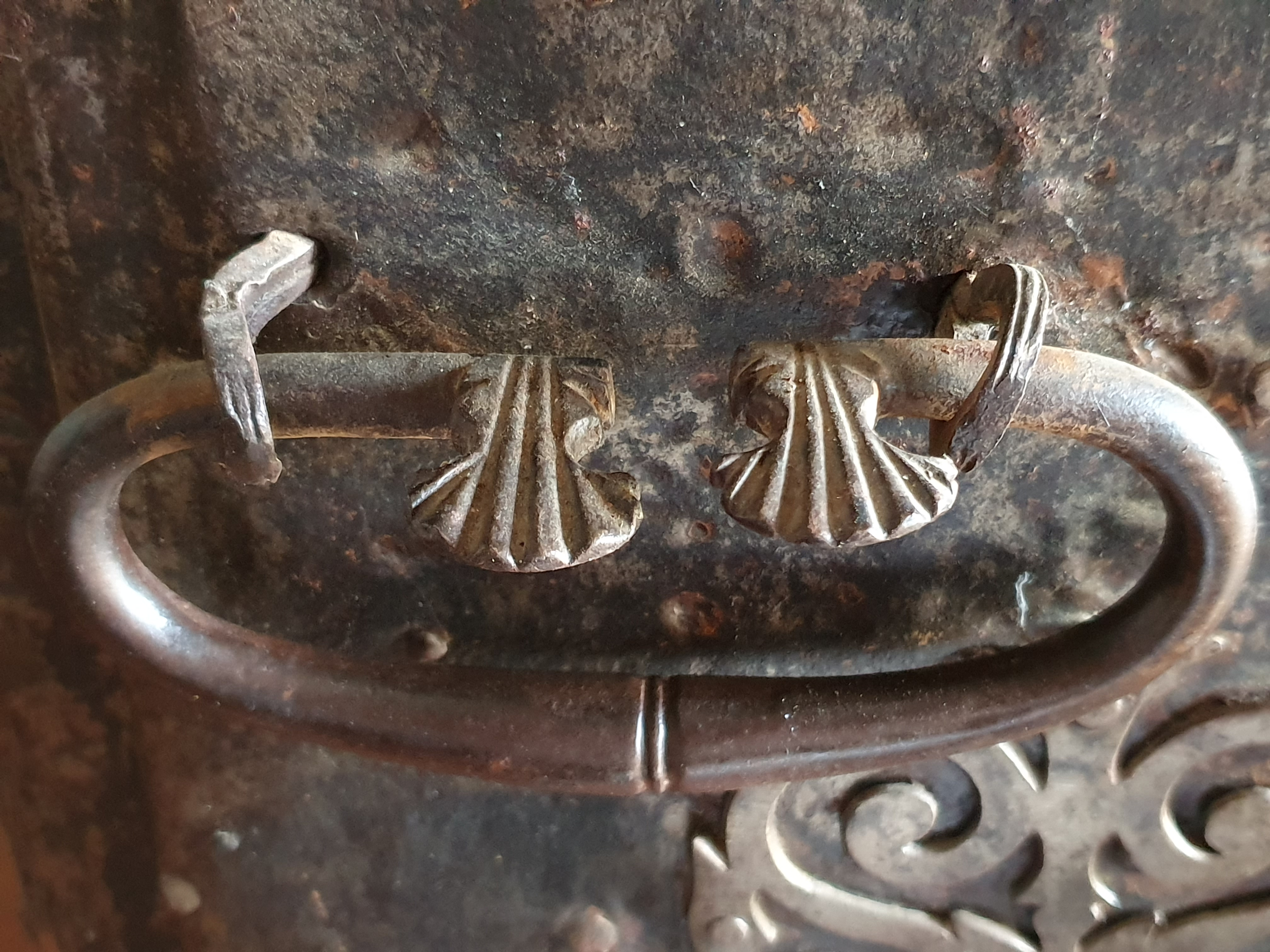 Doorknob of the main door of the Church of Villamelendro with two Jacobean Scallops. This church is by